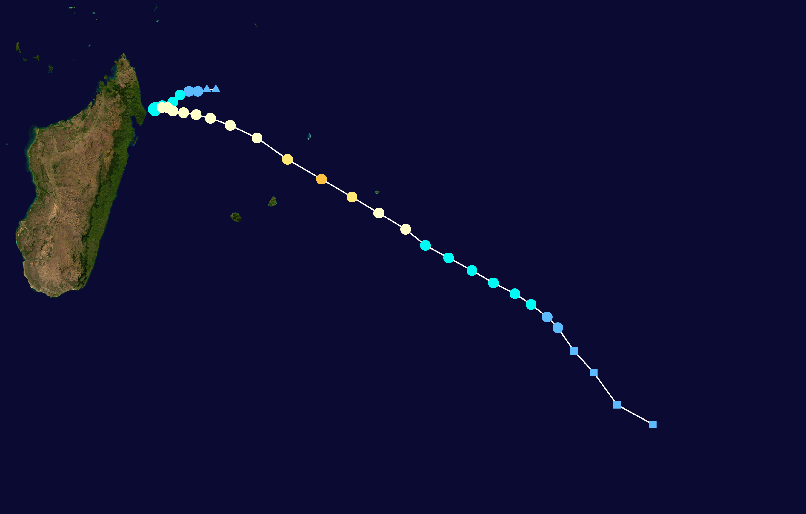 Track map of Intense Tropical Cyclone Herold of the 2019-20 South-West Indian Ocean cyclone season. The points show the location of the storm at 6-hour intervals. The colour represents the storm's maximum sustained wind speeds as classified in the Saffir–Simpson scale (see below), and the shape of the data points represent the nature of the storm, according to the legend below. Saffir–Simpson scale Tropical depression≤38 mph≤62 km/h Category 3111–129 mph178–208 km/h Tropical storm39–73 mph63–118 km/h Category 4130–156 mph209–251 km/h Category 174–95 mph119–153 km/h Category 5≥157 mph≥252 km/h Category 296–110 mph154–177 km/h Unknown Storm type Tropical cyclone Subtropical cyclone Extratropical cyclone / Remnant low / Tropical disturbance / Monsoon depression